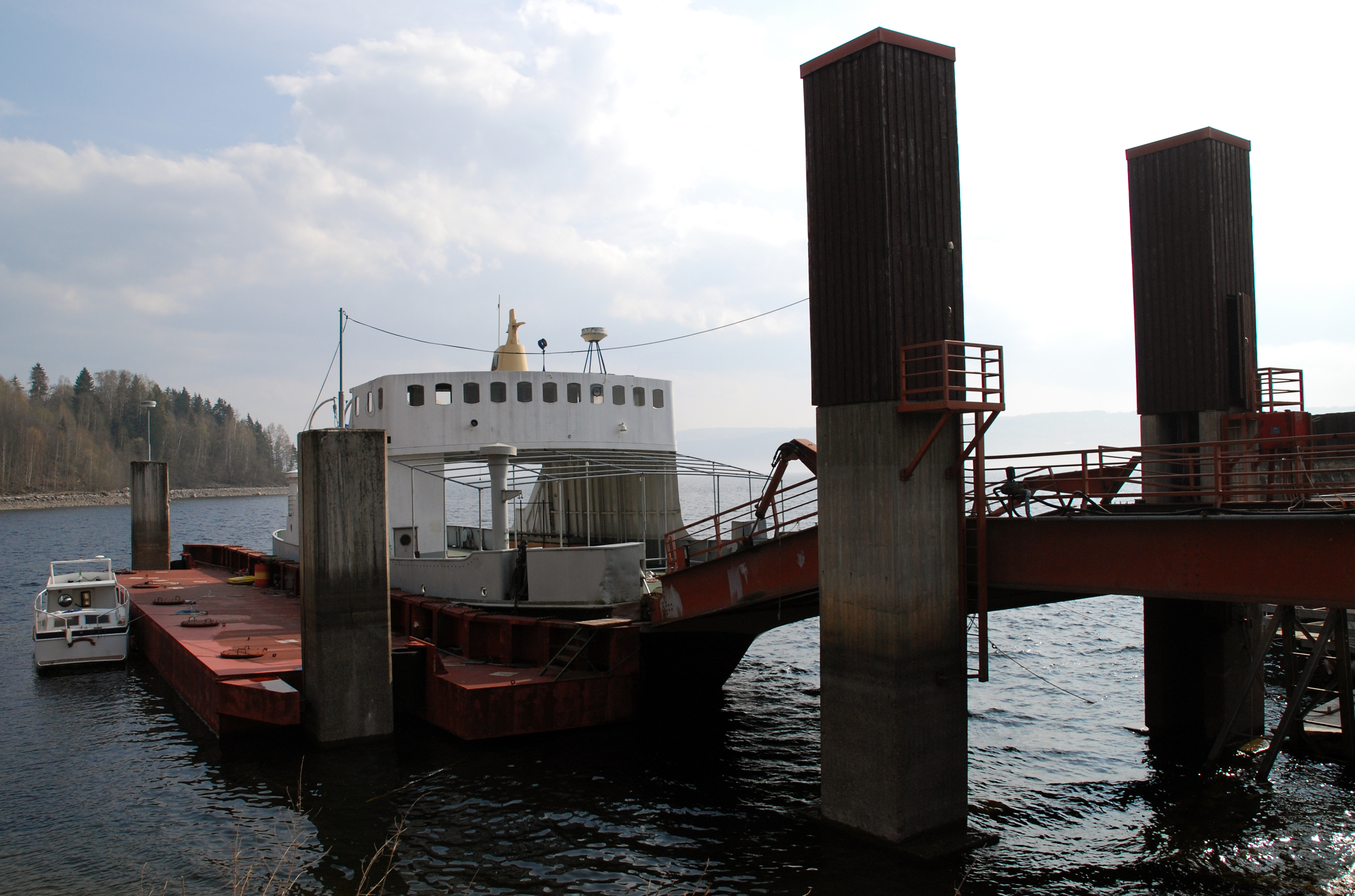 Mengsholferga, in Ringsaker, Hedmark, Norway.